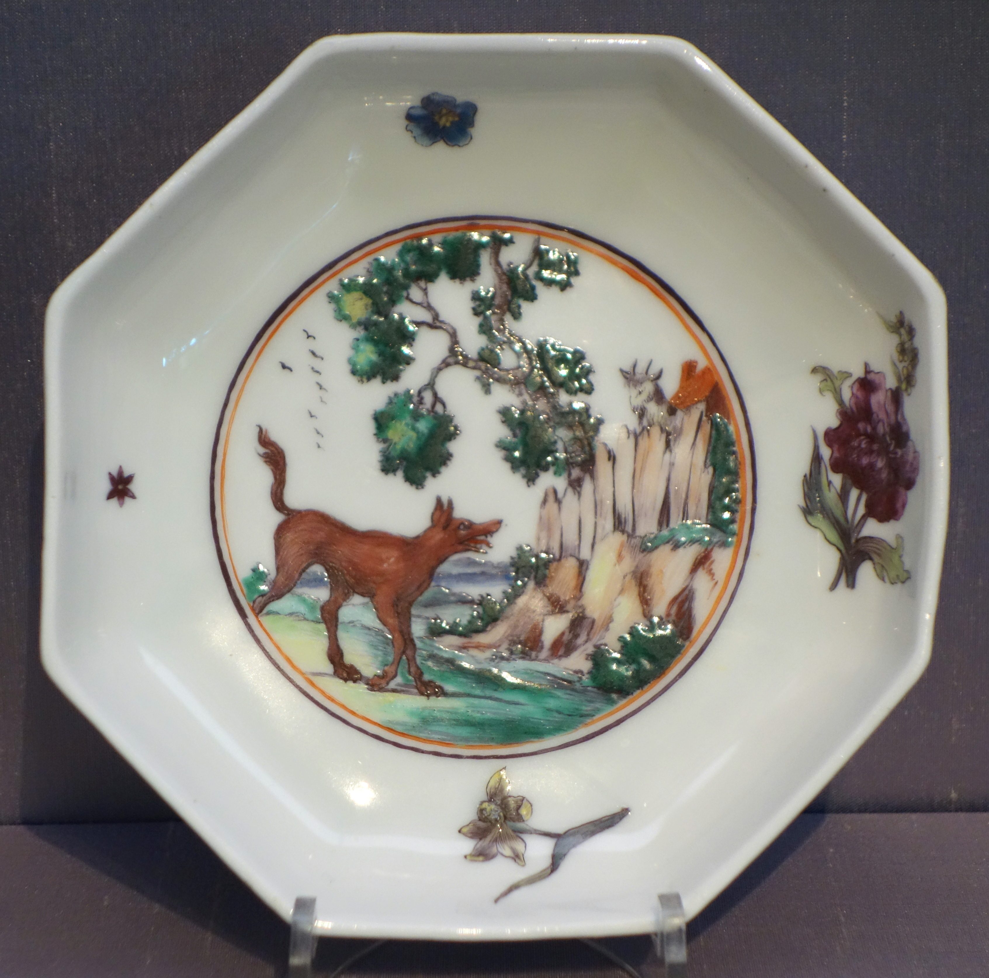 Exhibit in the California Palace of the Legion of Honor, San Francisco, California, USA. This work is old enough so that it is in the public domain.